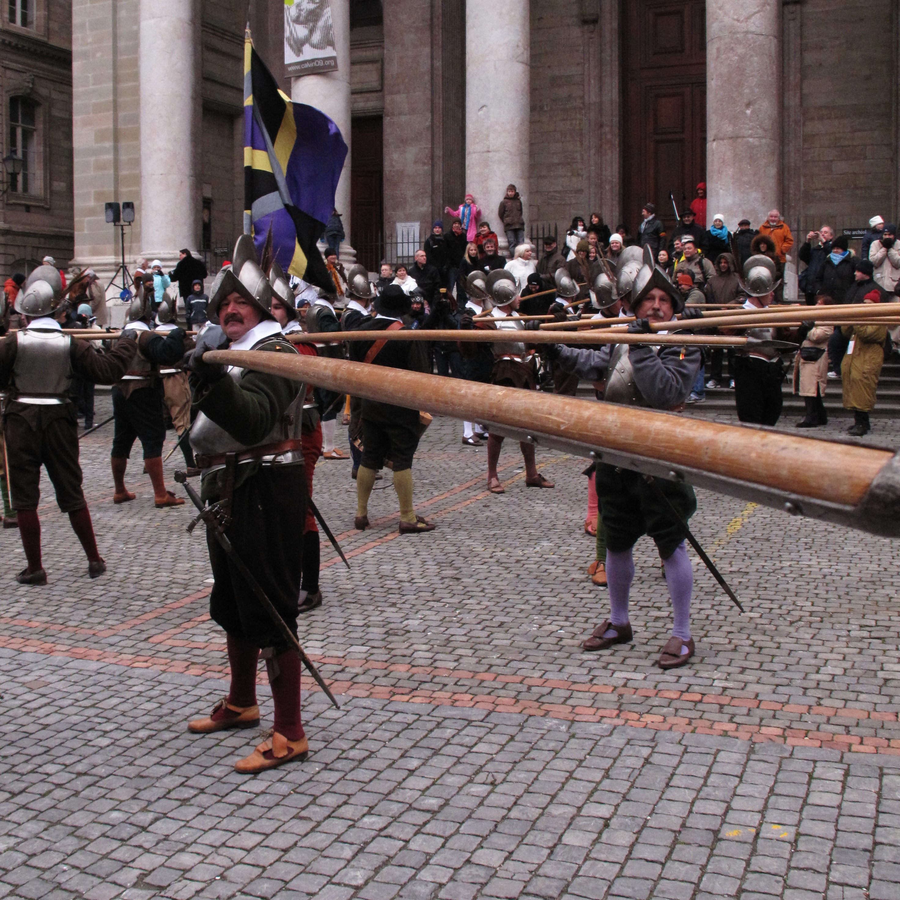 Pike squareRe-enactment during the 2009 Escalade in Geneva